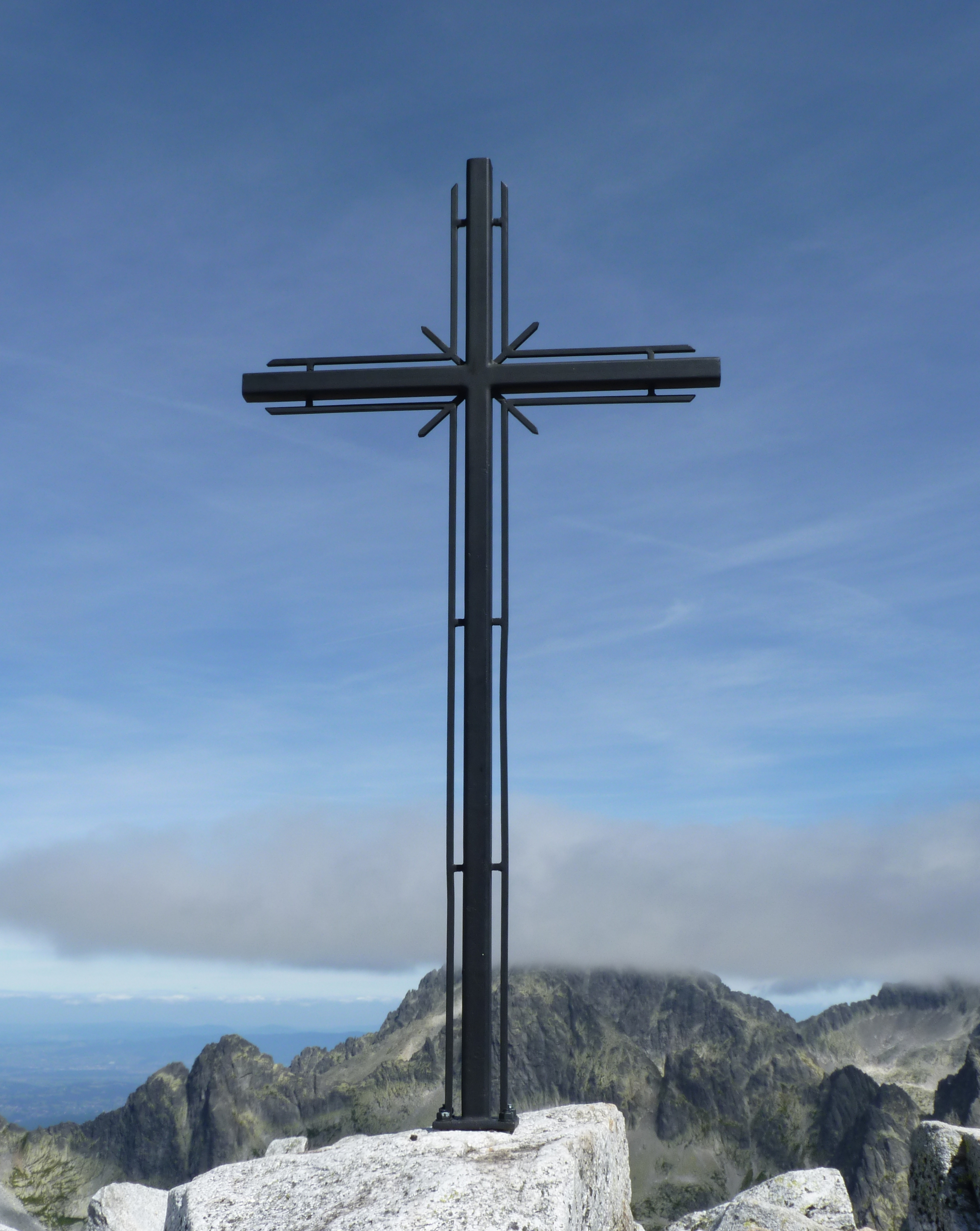 Cross at the top of the Slavkovský štít mountain. Tatra Mountains, Slovakia